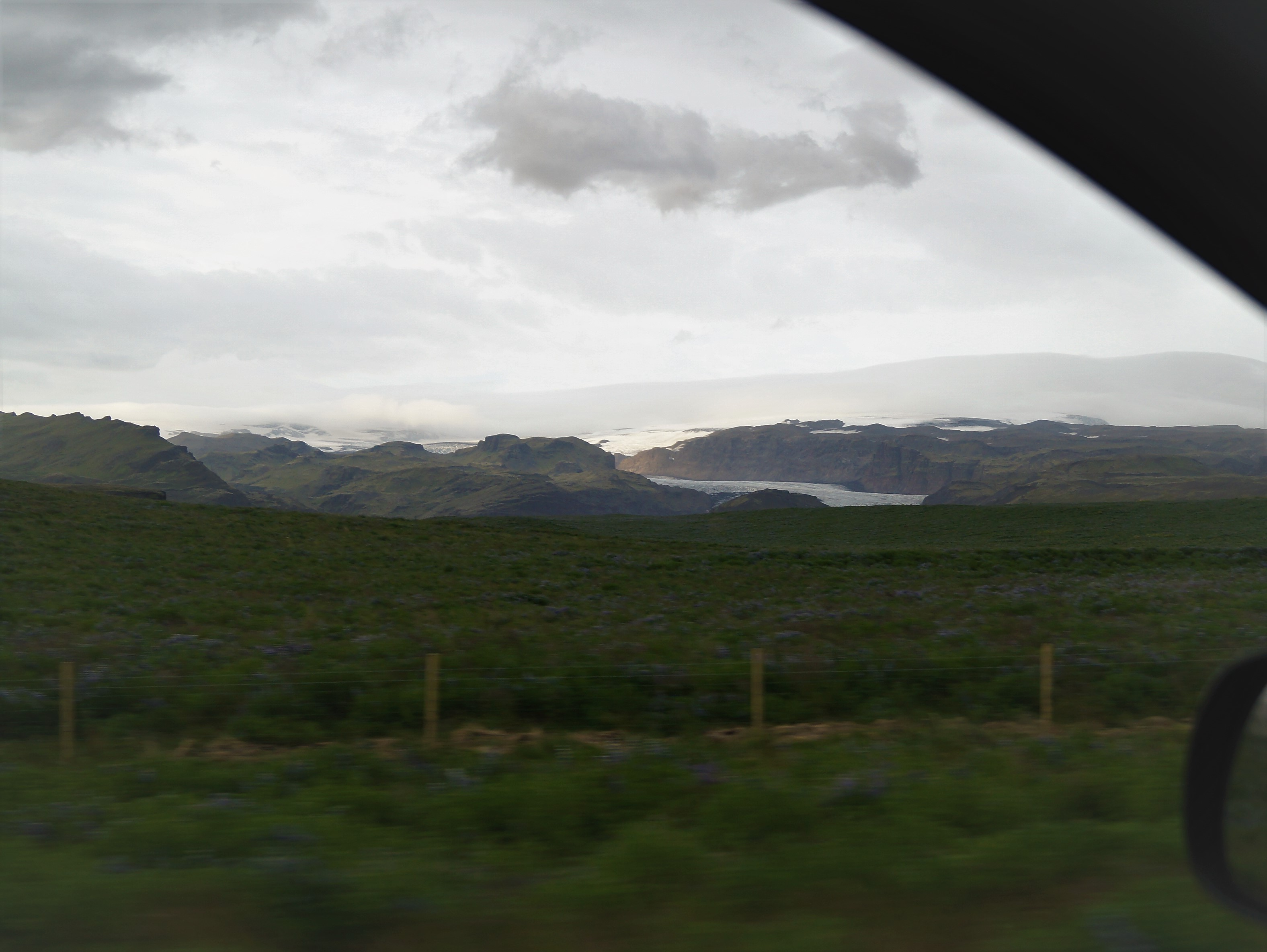 View of Sólheimajökull from Road 1, Iceland